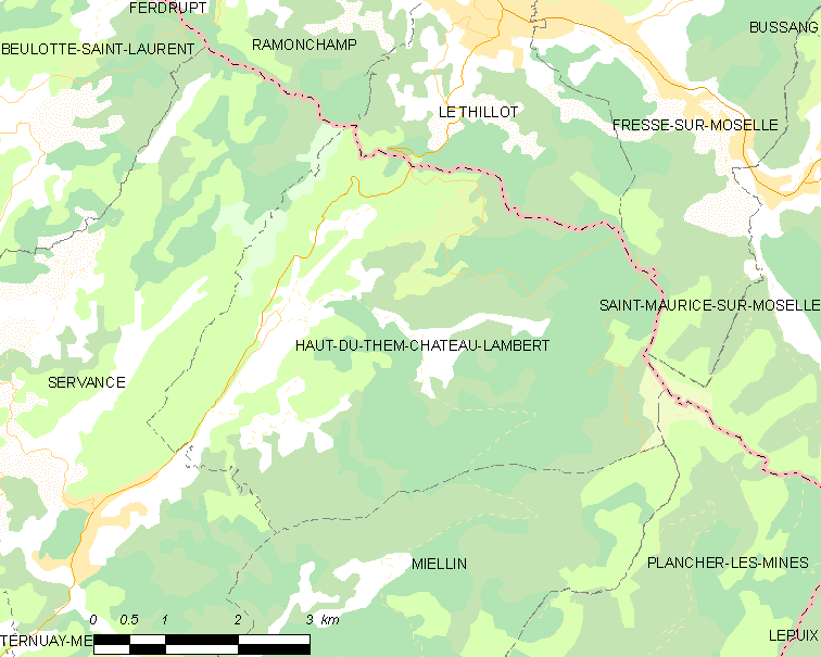 Map of French municipality